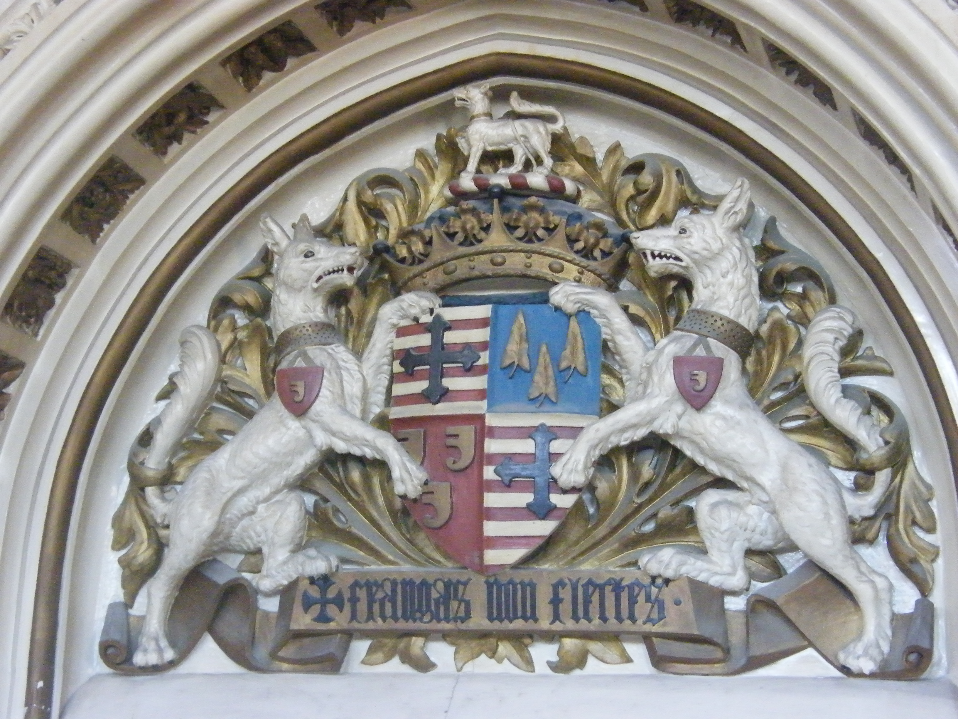 frangas non flectes - You may break me, but you shall not bend me. Arms of Leveson-Gower, Earl Granville: Quarterly 1st & 4th barry of eight argent and gules a cross flory sable (Gower); 2nd: azure, three laurel leaves or (Leveson); 3rd: Gules, three clarions or (Granville) over all a crescent for difference (Debrett's Peerage, 1968, p.505)